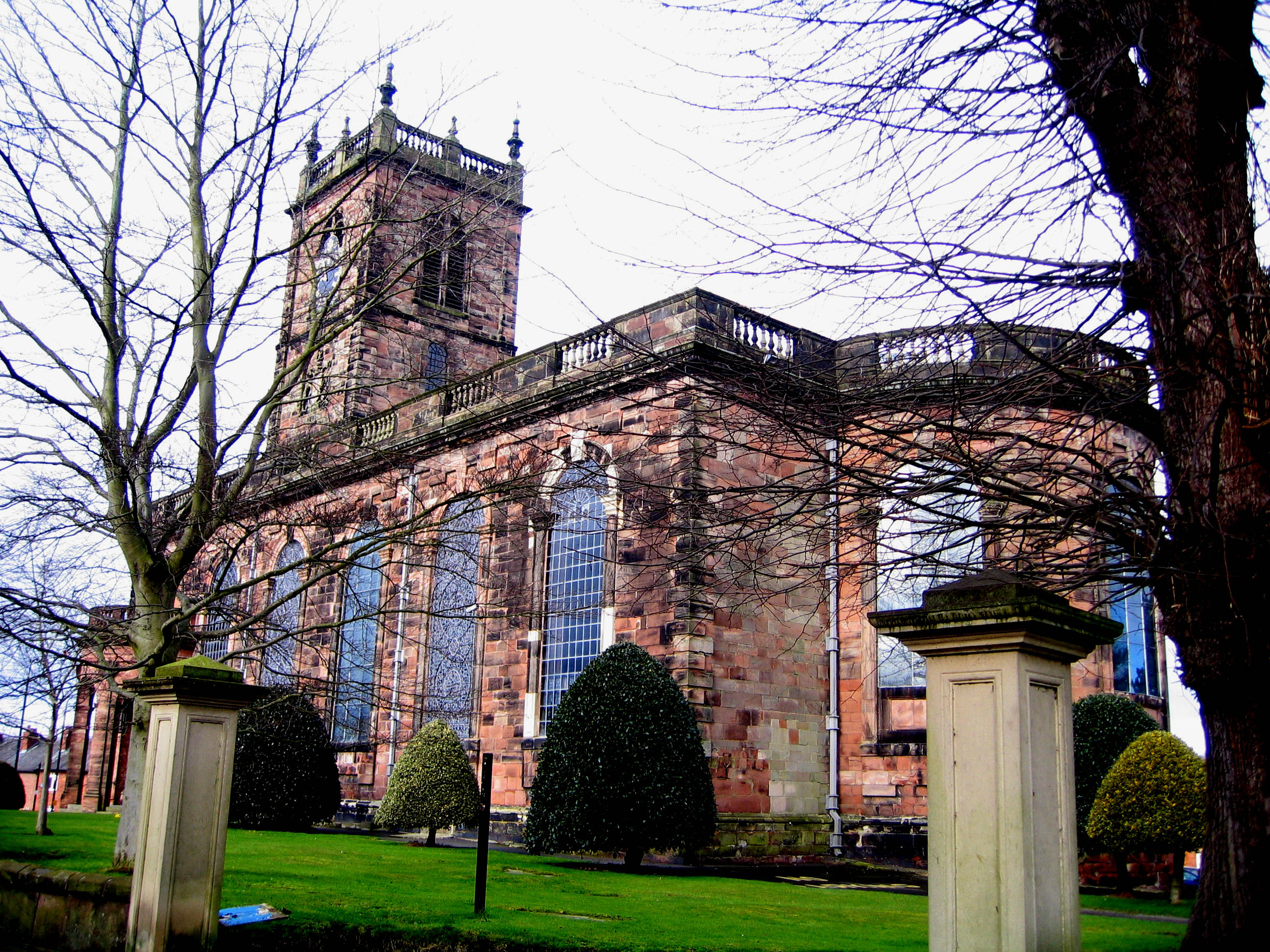 Photograph